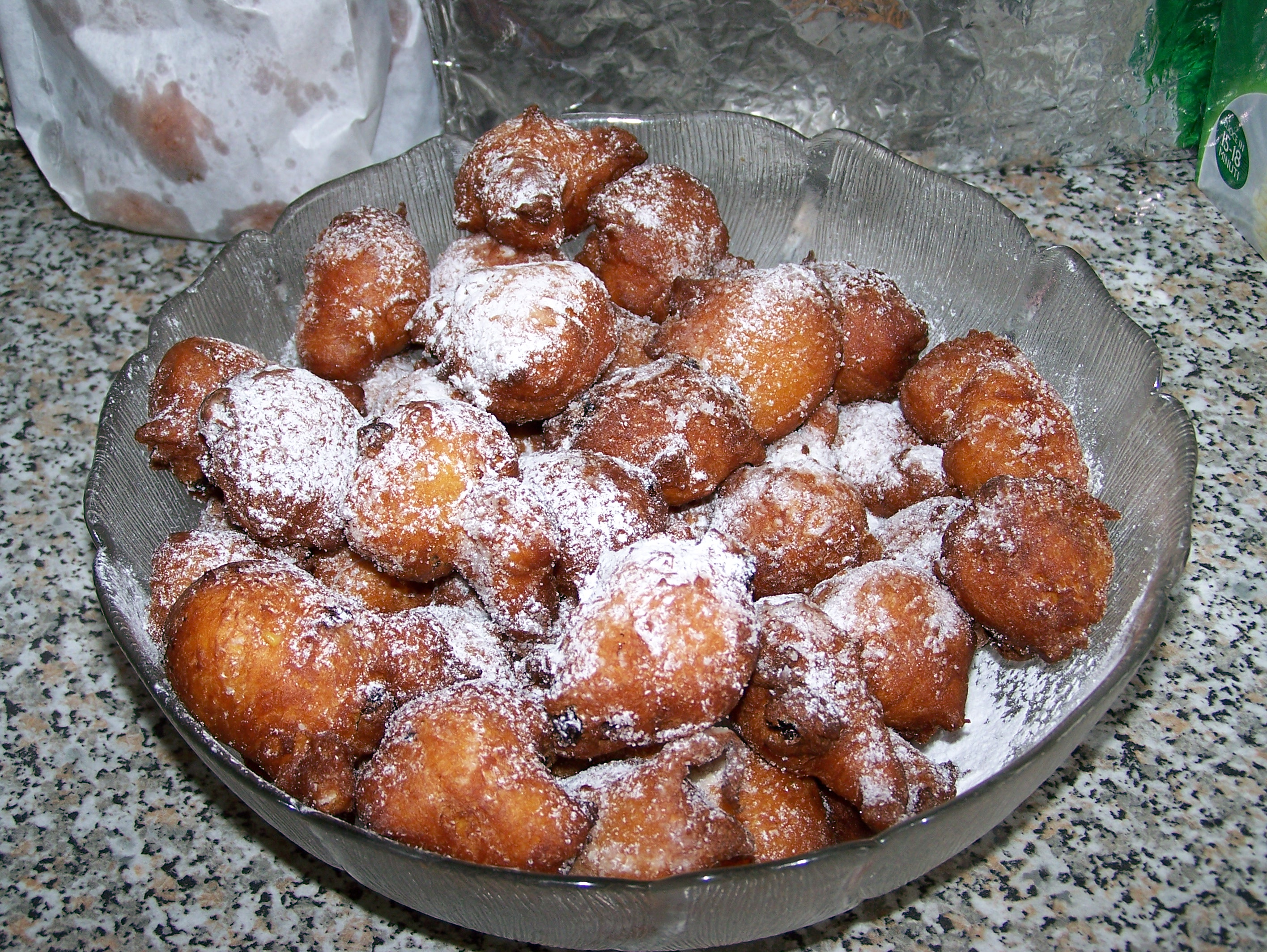 Italian carnival sweets, typical of Friuli (fritulis) and Veneto (fritole). Furlan: Dolç tipic di Carnevâl che si cjate in Friûl e ancje in Venit.